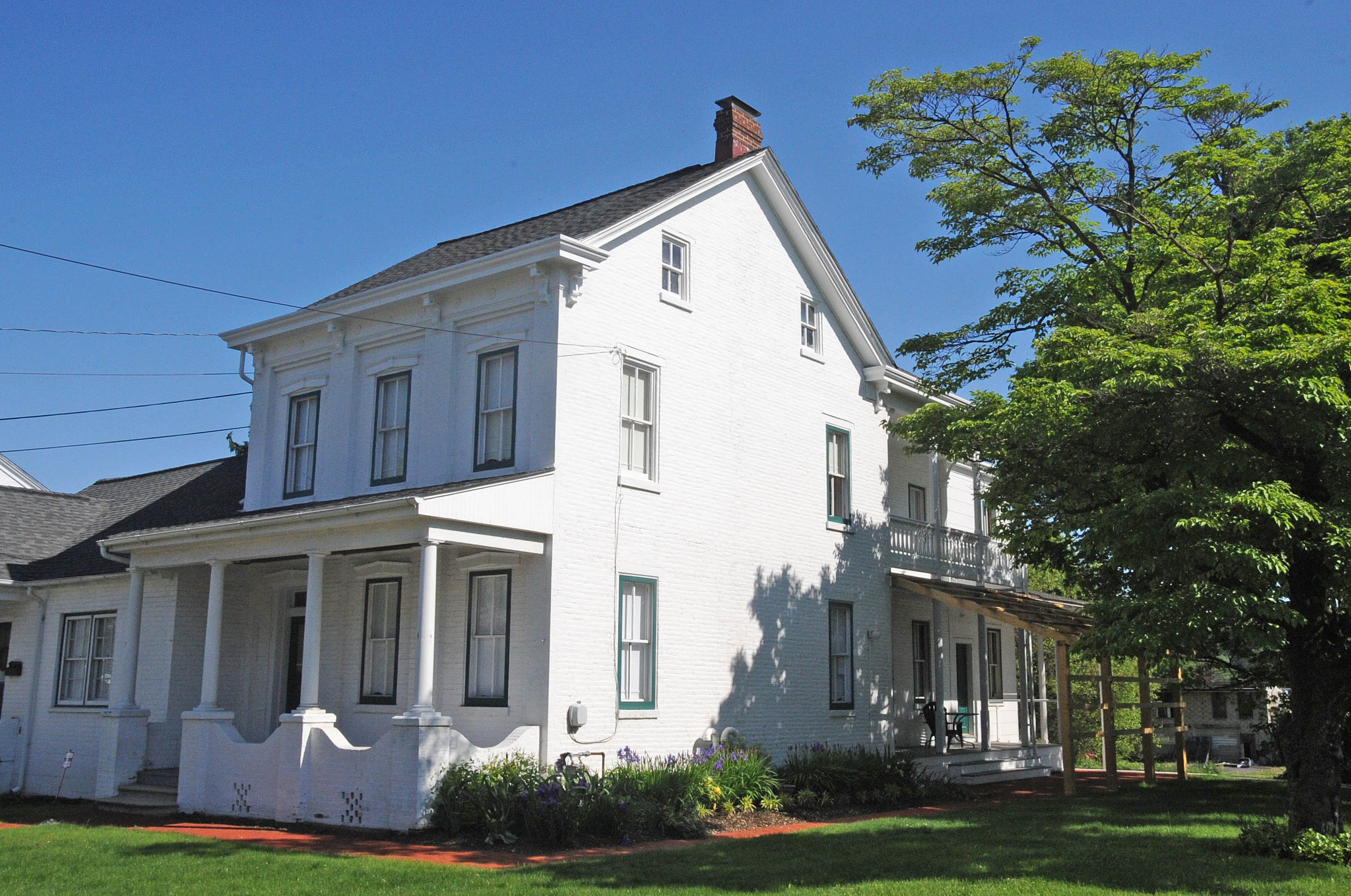 AN AMERICAN NOVELIST, POET, SHORT-STORY WRITER, ART CRITIC, AND LITERARY CRITIC. ONE OF ONLY THREE WRITERS TO WIN THE PULITZER PRIZE FOR FICTION MORE THAN ONCE. HIS MOST FAMOUS WORK IS HIS "RABBIT" SERIES